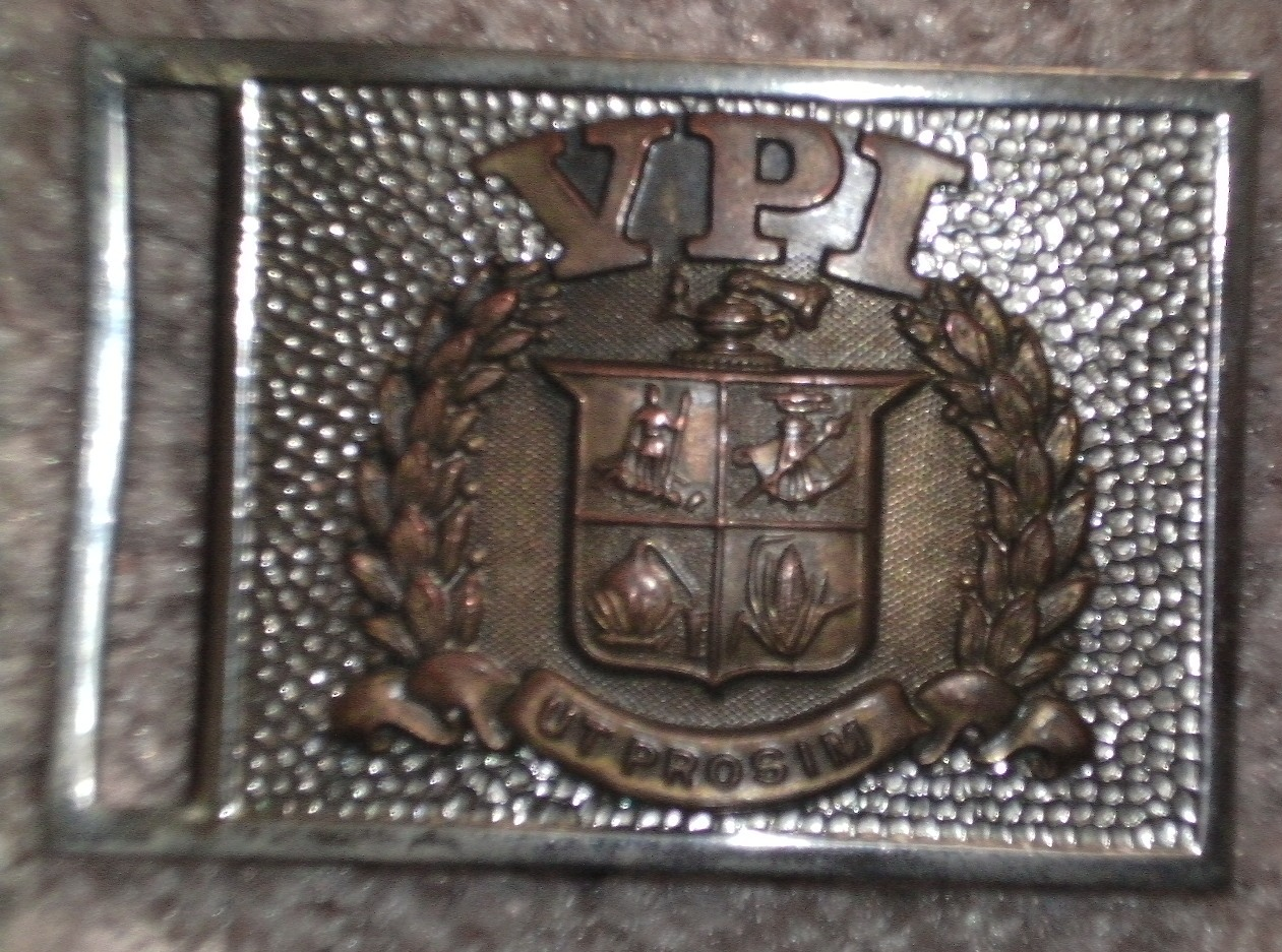 A belt buckle worn by a Virginia Tech Corps of Cadets member (1941)